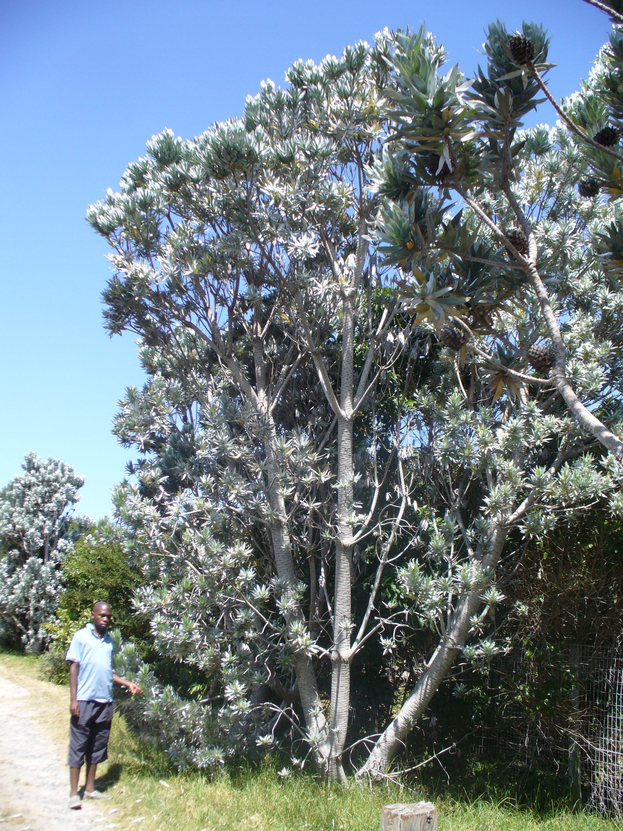 Male silver tree with female tree in foreground